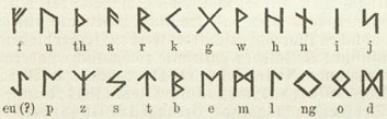 Runes according to Meyers Konversations-Lexiko. The image contains a Siegrune and the Ger rune as runic insignia of the Schutzstaffel instead of Sowilō and Jēran. Do not use out of context.